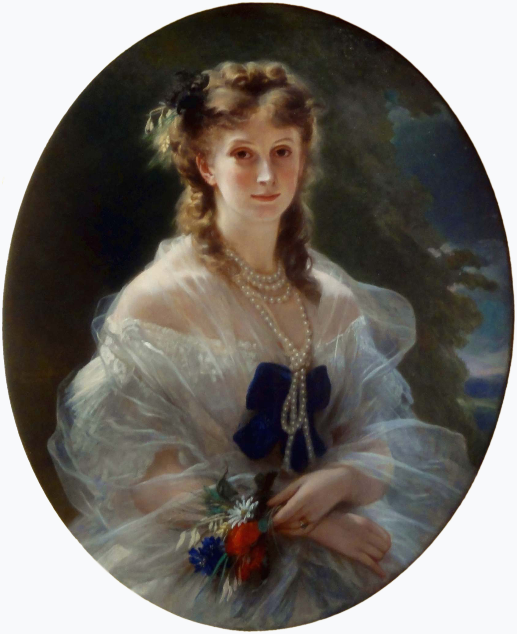 The Duchess of Morny, born Sophie Troubetzkoy, 1863, Musée du Second Empire.